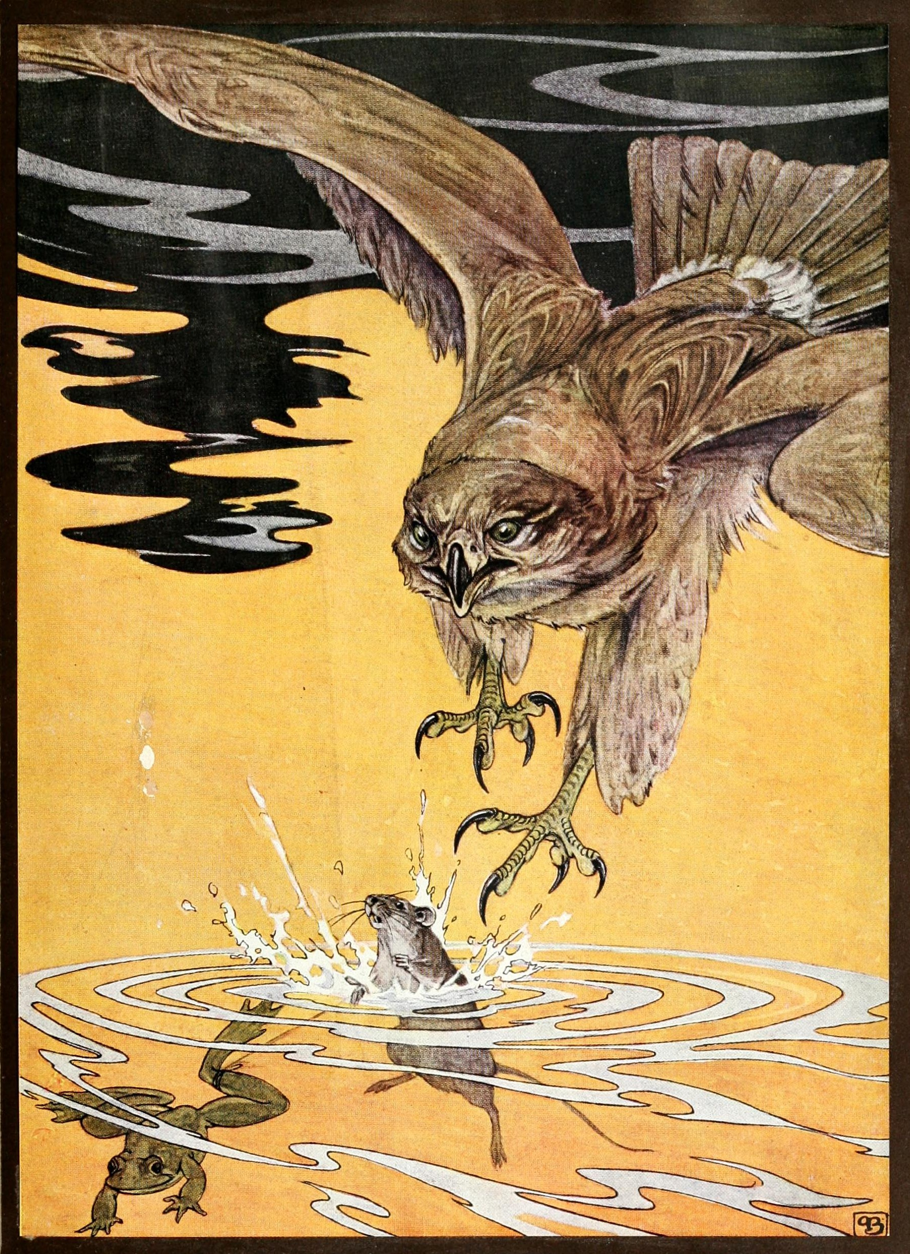 Scan of illustration in a collection of fables